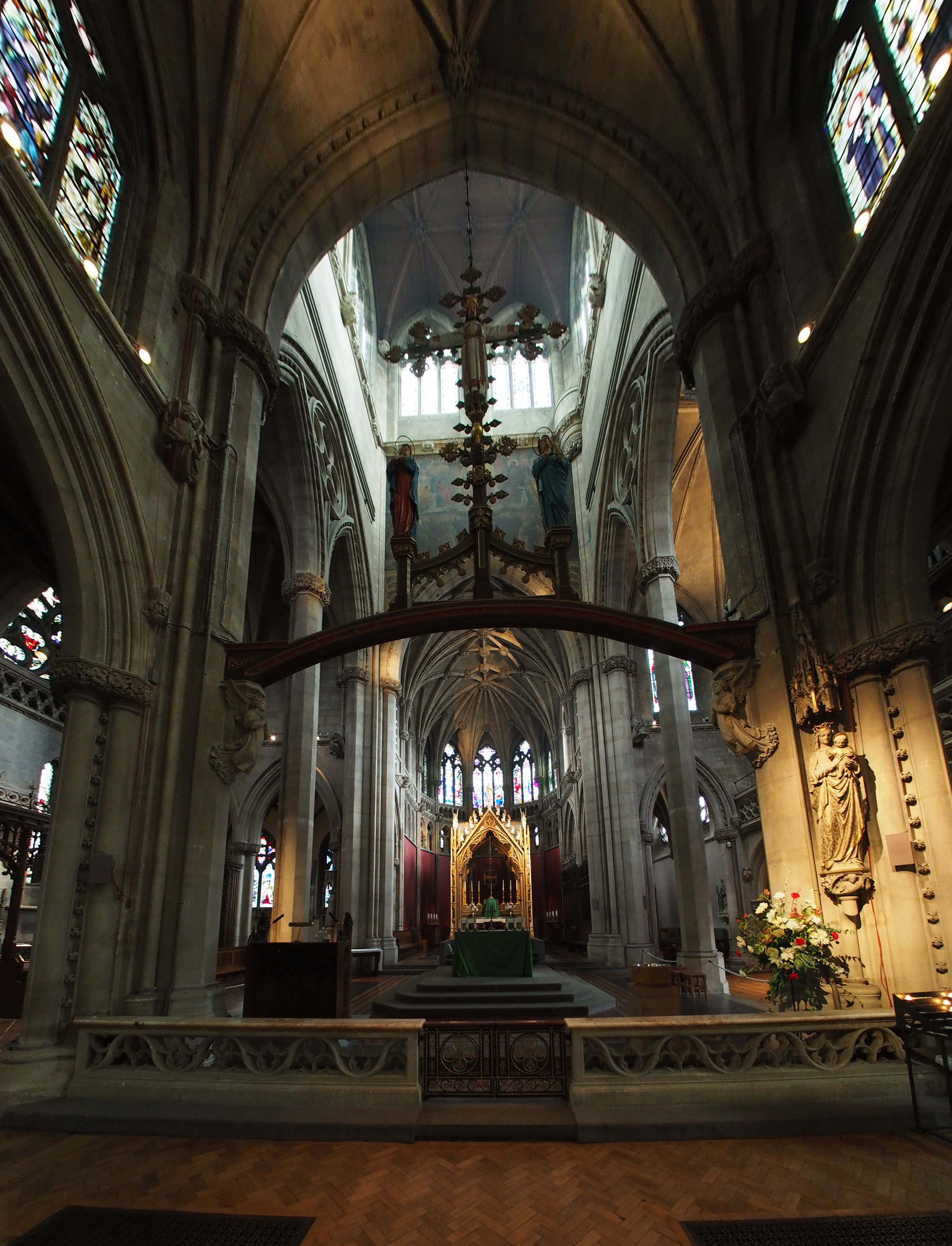 Interior of Our Lady and the English Martyrs Church, Cambridge: The crossing.